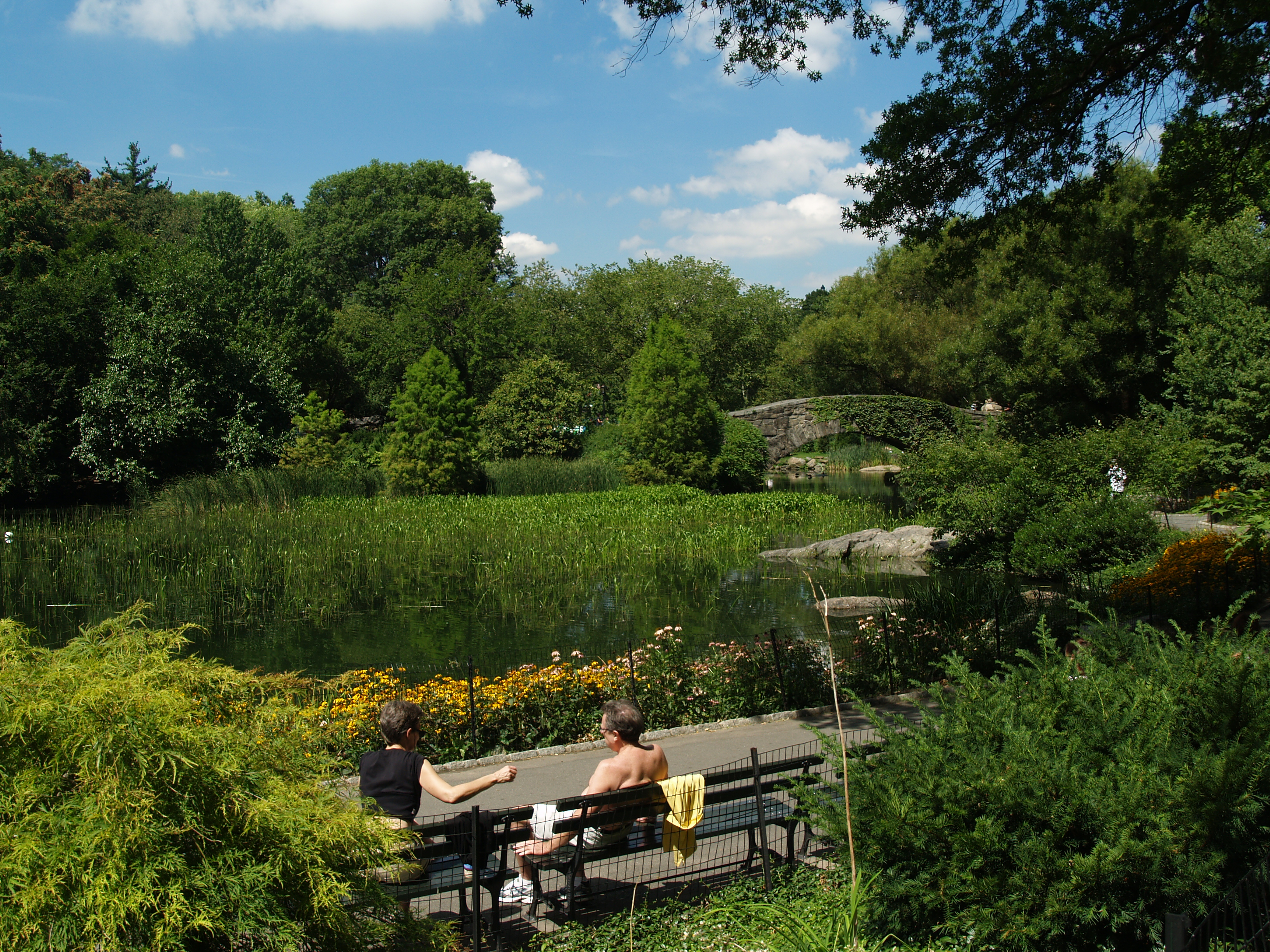 Lower Central Park at 1:00 p.m. Photographer's blog post about new photos of Central Park for Wikipedia.